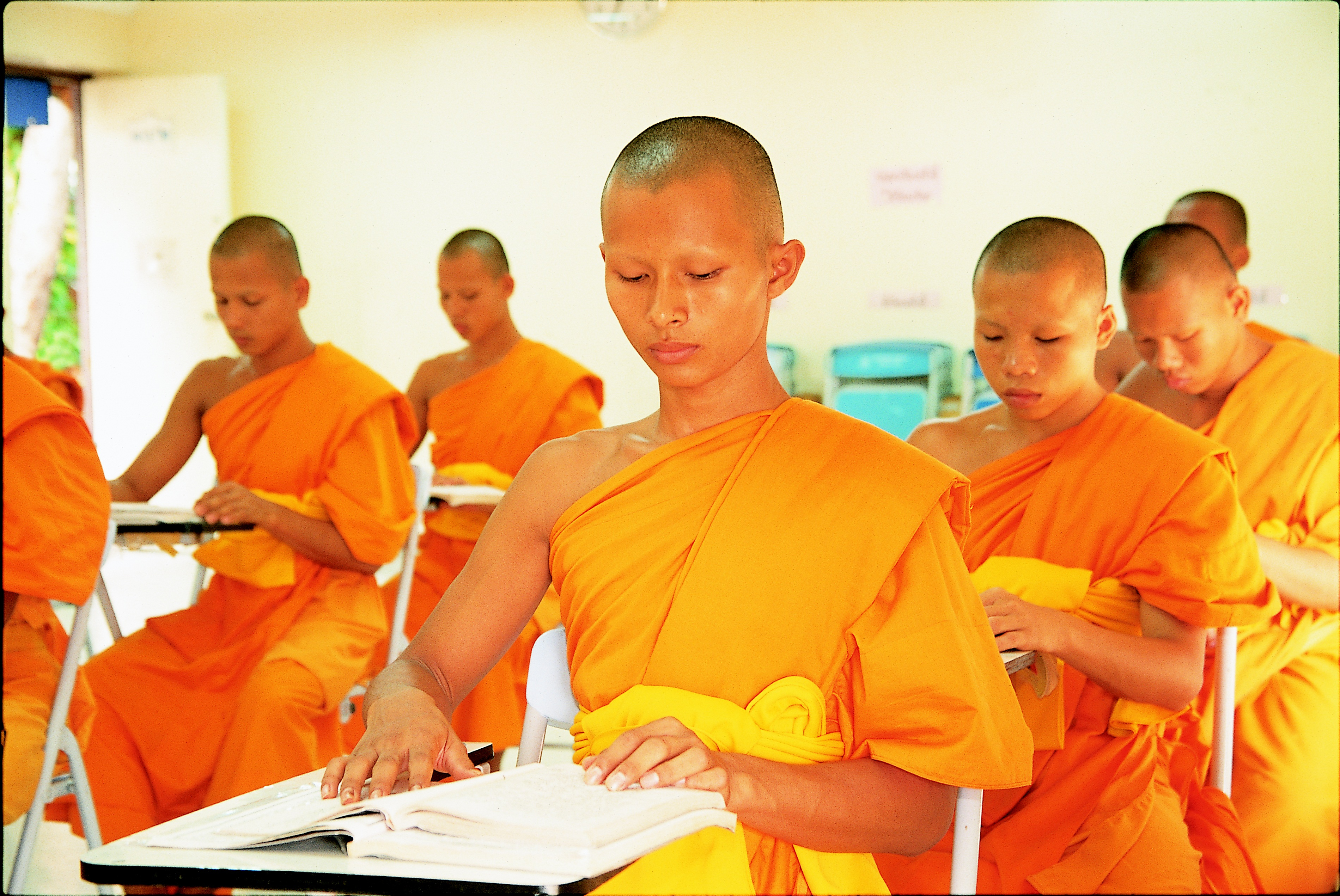 Novices studying Dhamma and Pali language.